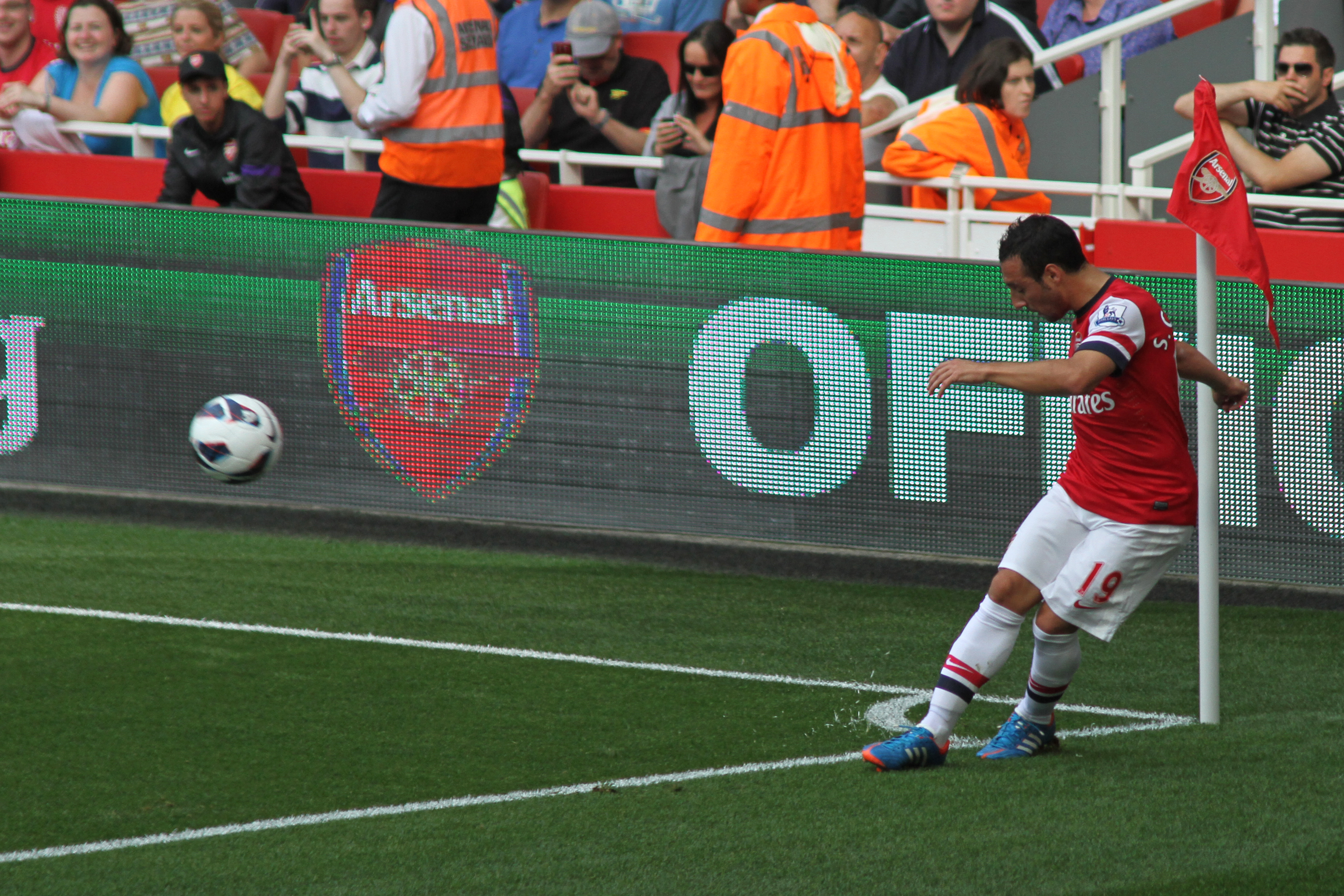 Santi Cazorla taking a corner versus Southampton